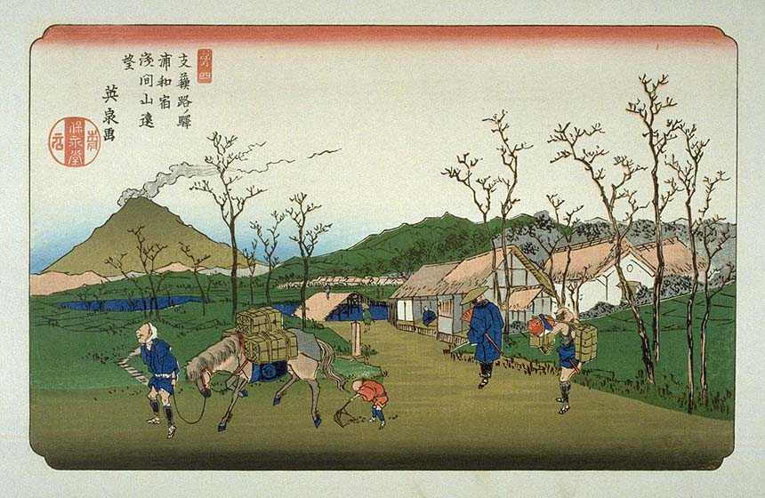 Urawa on the Kisokaido, ukiyo-e prints by Keisai Eisen